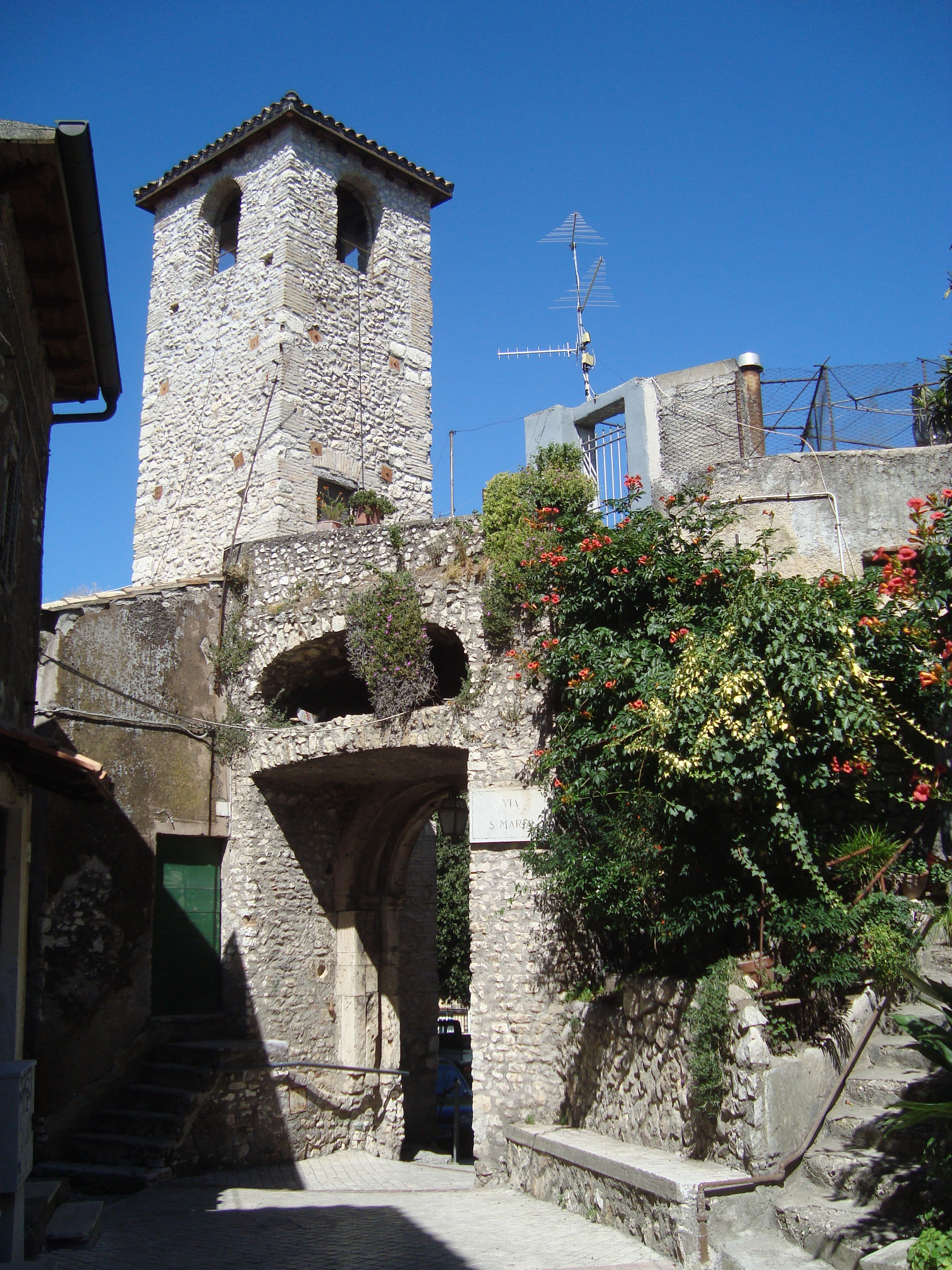 Old door (porta Capocci Orsini) of the city